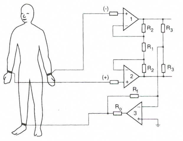 Driven Right Leg System for EKG